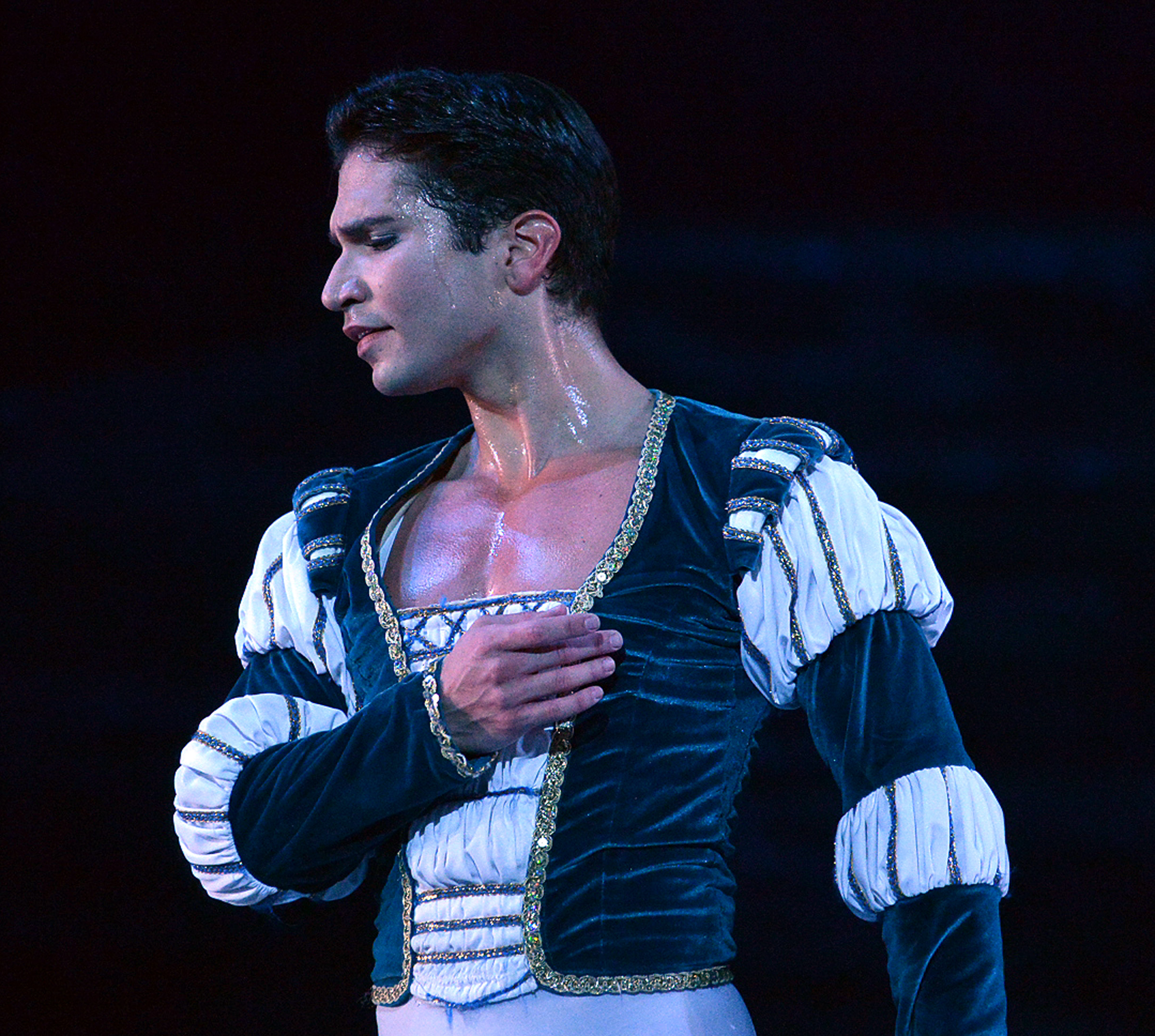 Yosvani Ramos performing Siegfried in "Swan Lake" as guest artist with Ballet de Monterrey, Mexico, April 2012. Photo by Dave Friedman. Sophoife (talk) 11:47, 26 October 2012 (UTC)